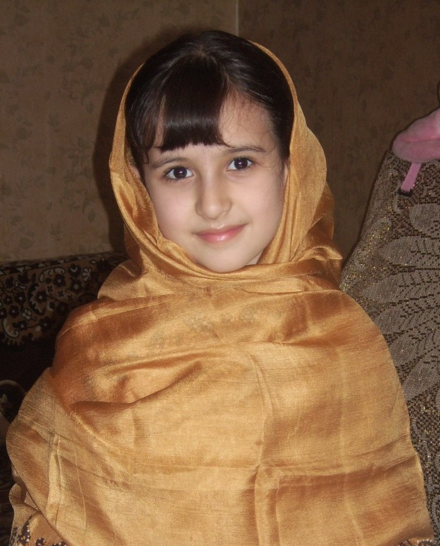 Azeri girl in Kalaghagyi